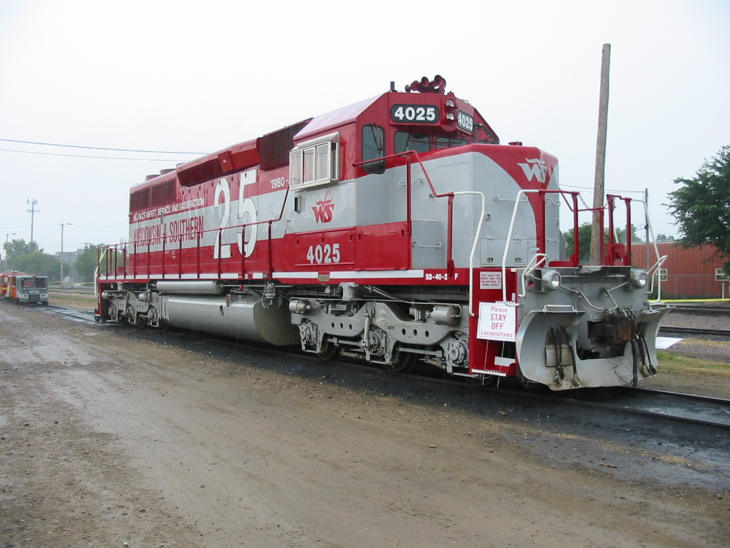 Wisconsin and Southern Railroad EMD SD40-2 number 4025 painted for the railroad's 25th anniversary, seen in Madison, Wisconsin, on July 23, 2005.